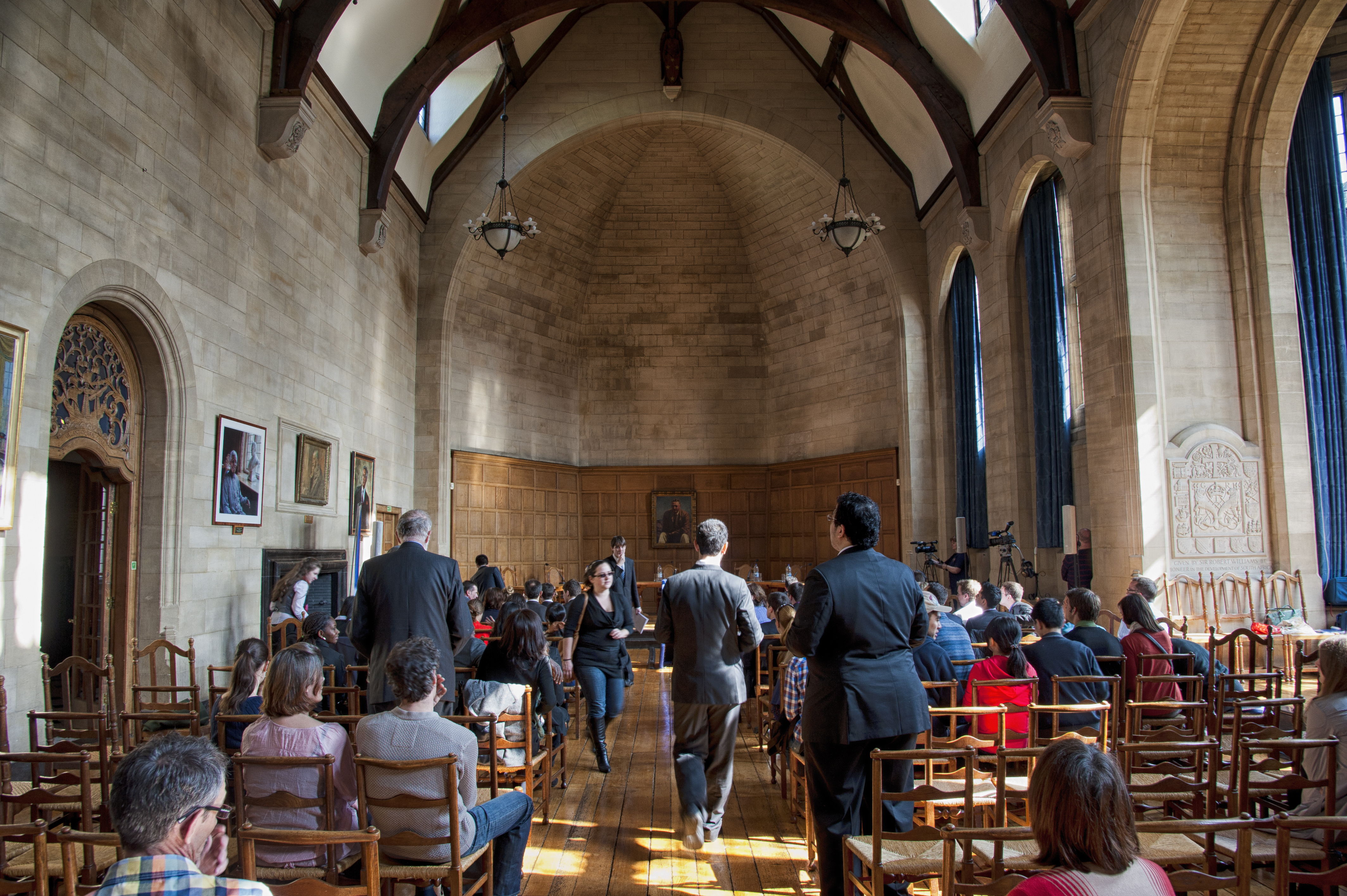 rhodes hall house oxford university 2012 south parks road